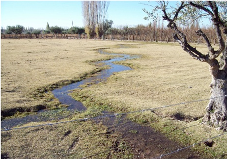 The overflow originated from an artificial irrigation channel in a recreational farm in the locality of Perdriel (902 m altitude), Mendoza province, where the snail vector species Galba neotropica, syn. Lymnaea neotropica, was collected and cattle, goats, horses, donkeys and llamas proved to be infected